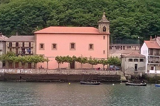 Saint Christ of Bonaza church, Pasai Donibane. Gipuzkoa, Basque Country